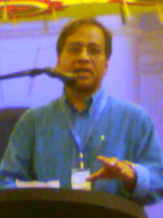 Fakrul Alam was speaking at Bangla Academy, Dhaka, on 16 November 2013.